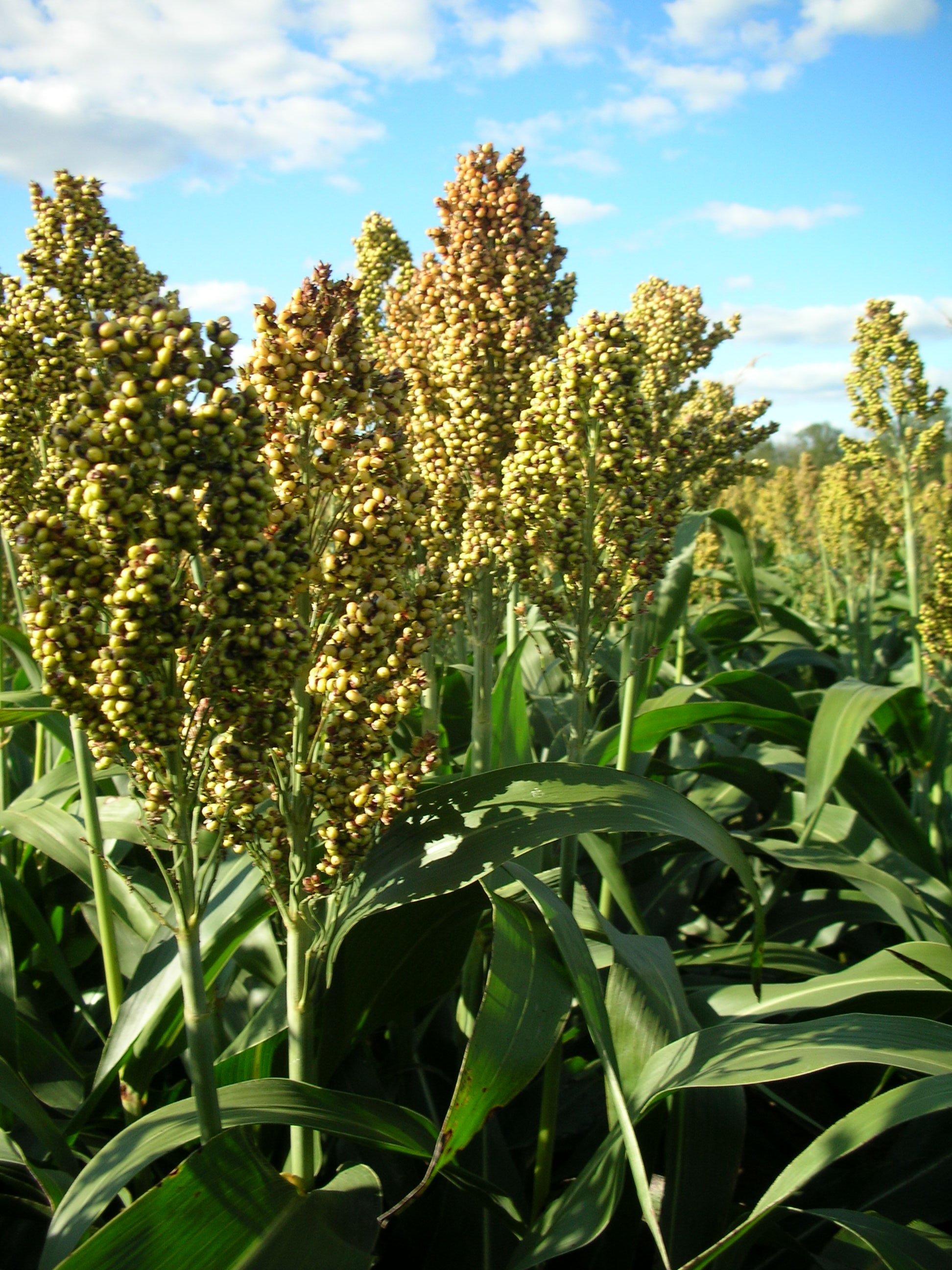 Sorghum bicolor (Moench), grain type panicle, in a field in Saxony-Anhalt, Germany